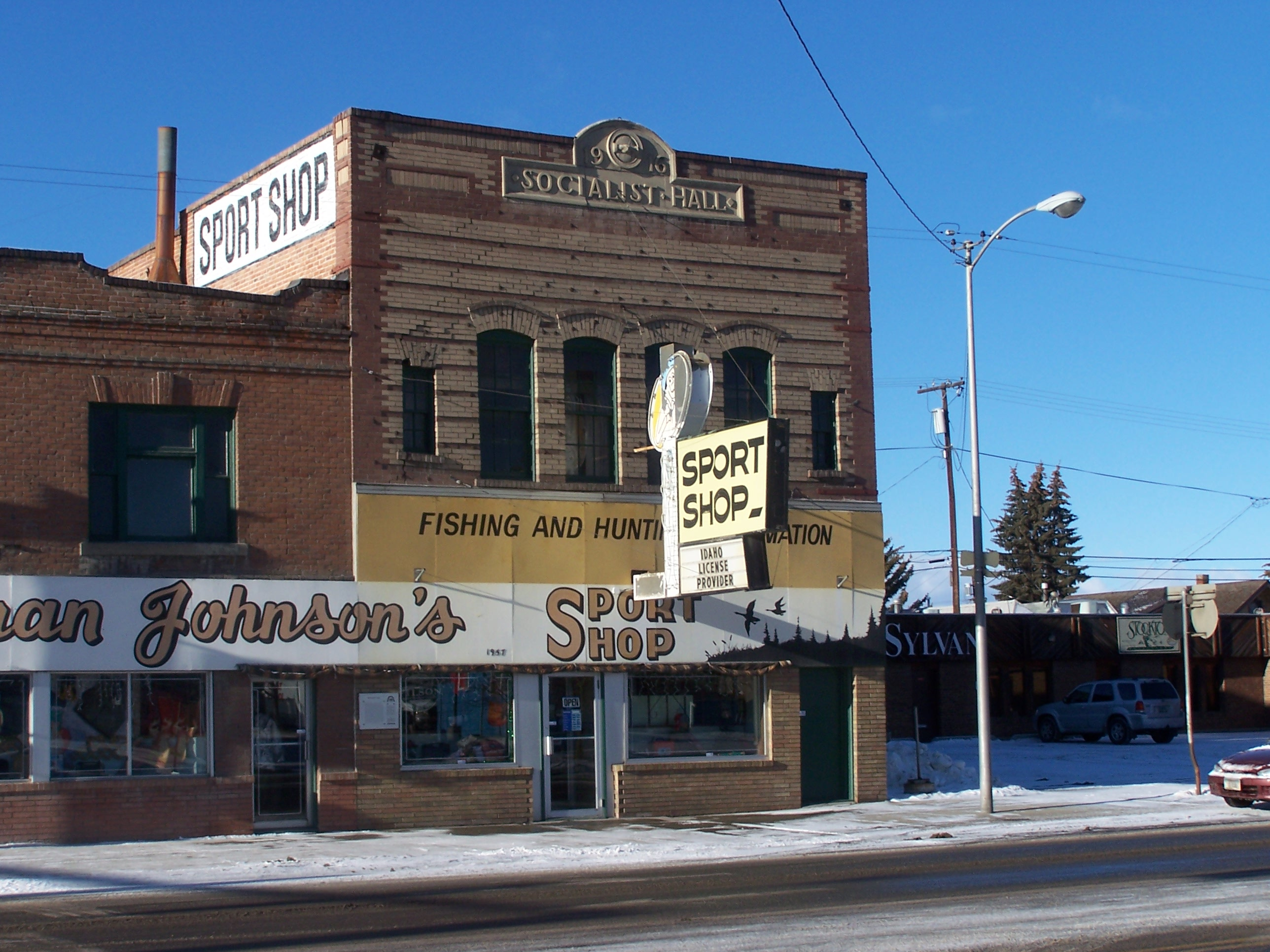 By Richard Gibson